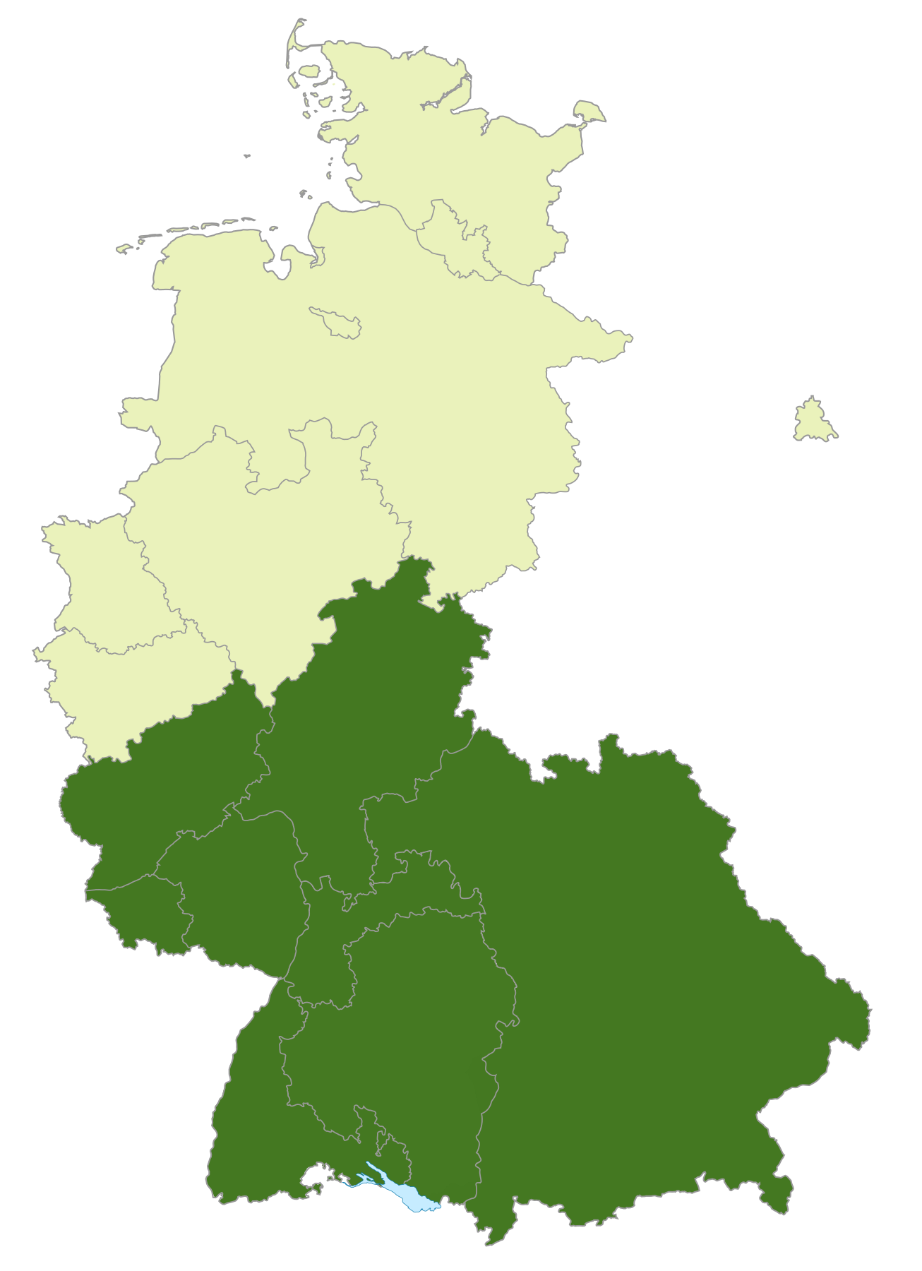 Germany's 2nd Bundesliga Süd